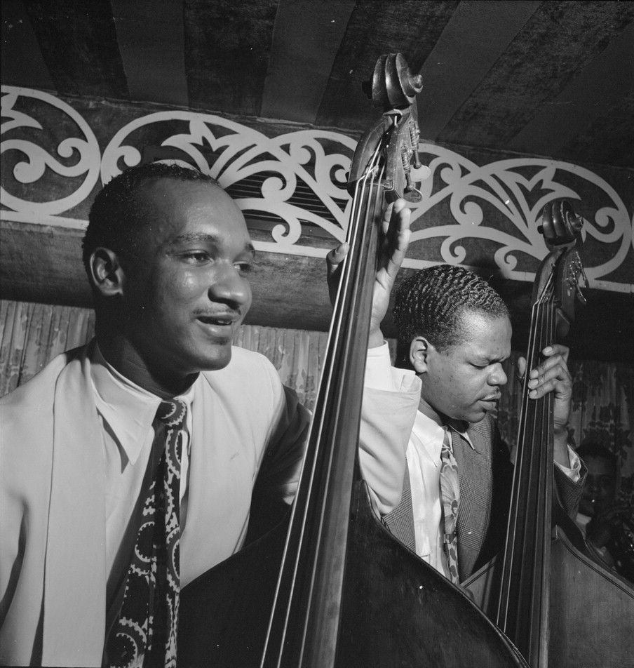 Oscar Pettiford and Junior Raglin, Aquarium NYC, ca. November 1946 - Photography by William P. Gottlieb.